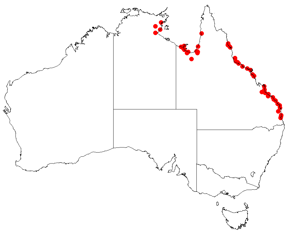 Lysiana maritima occurrence data downloaded from AVH, 30 September 2018